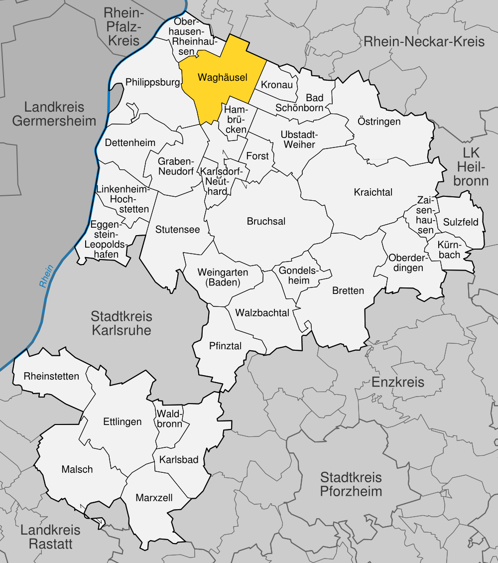 position of Waghäusel within distict of Karlsruhe, Baden-Württemberg, Germany